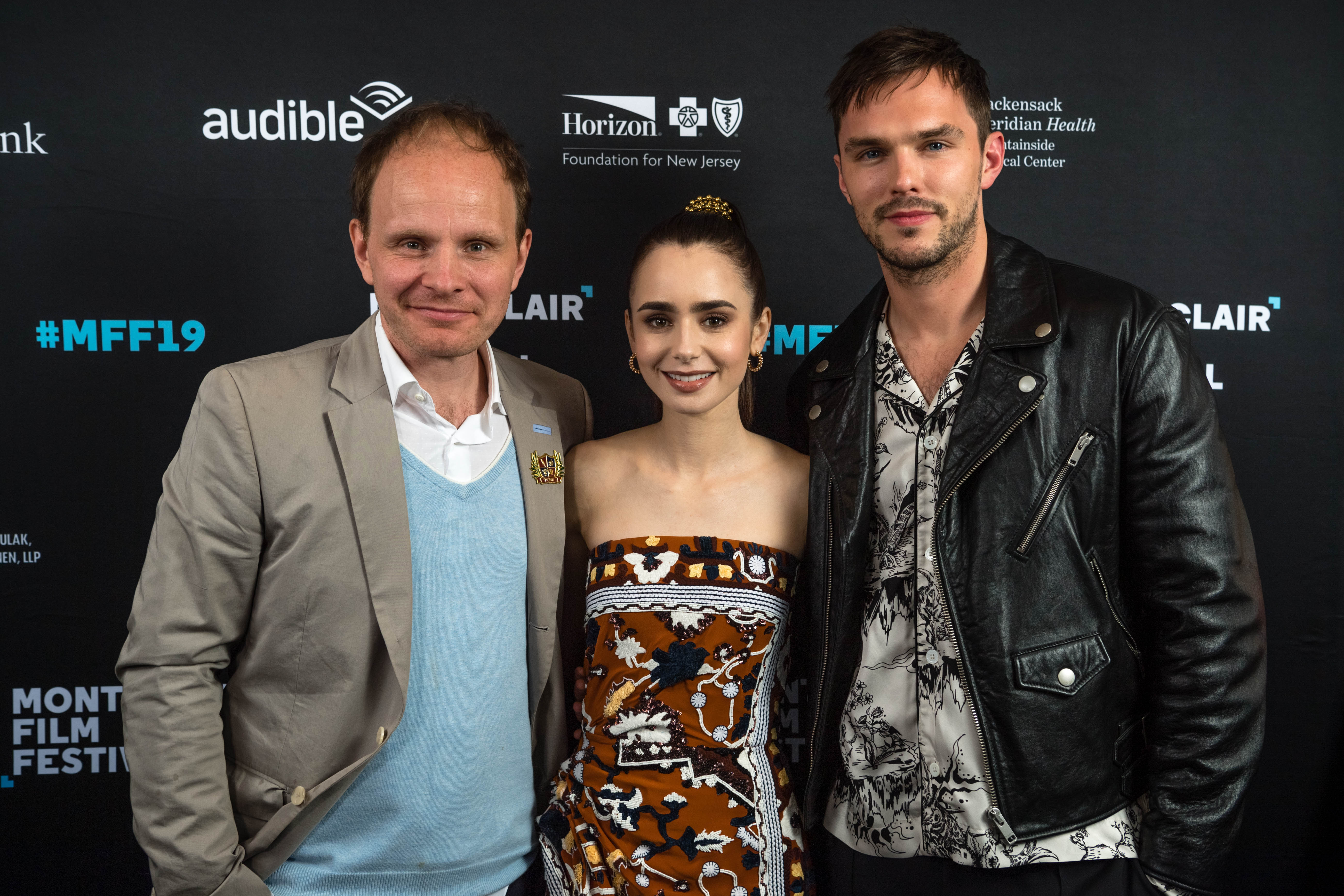 Photography by Neil Grabowsky